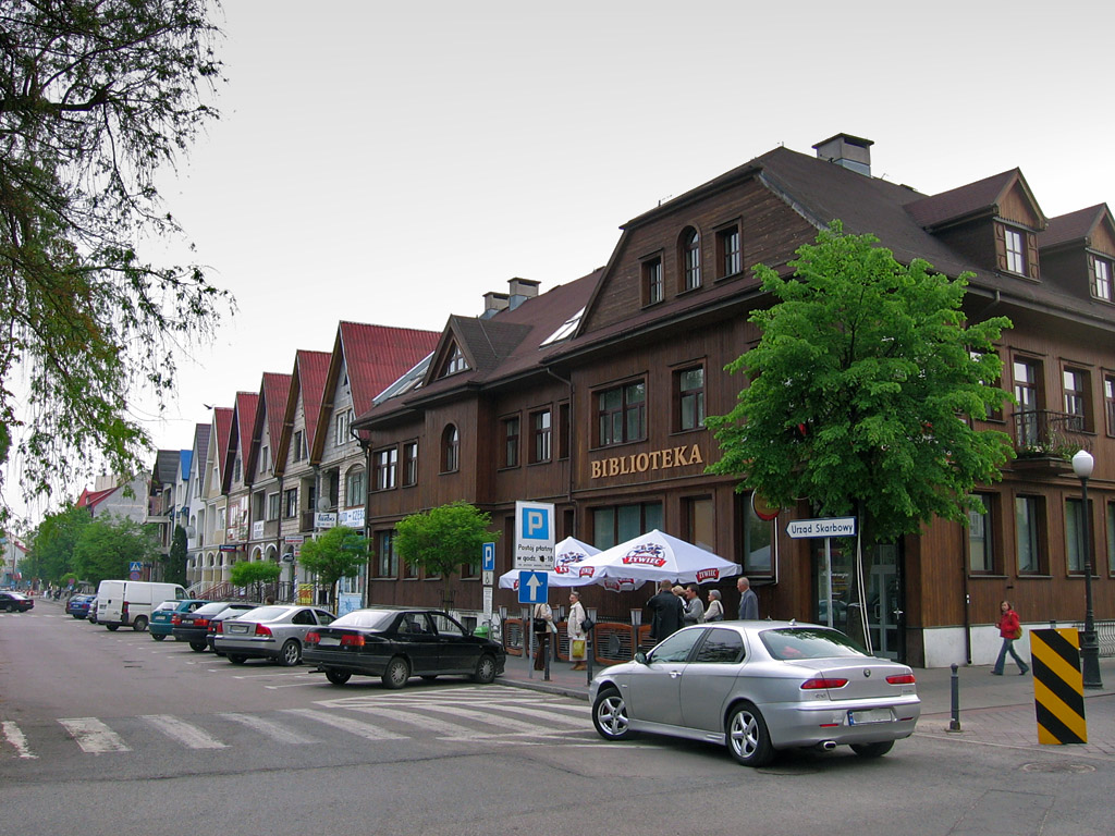 City of Ostroleka (Poland), public library at Glowackiego Street.